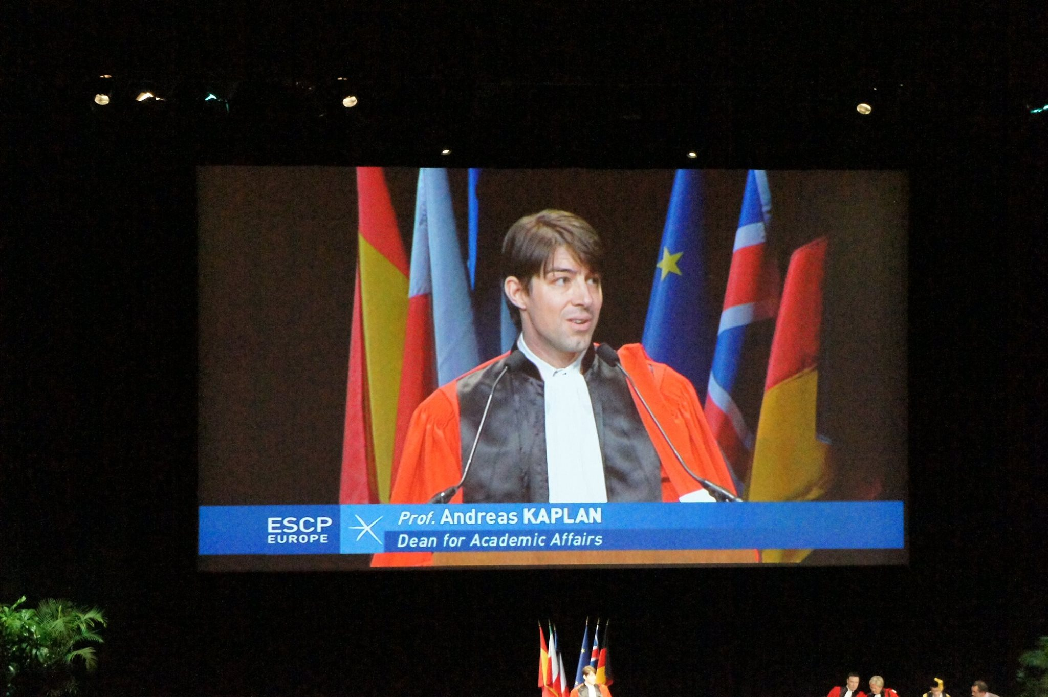 Andreas Kaplan - Dean for Academic Affairs - Palais des Congrès Paris